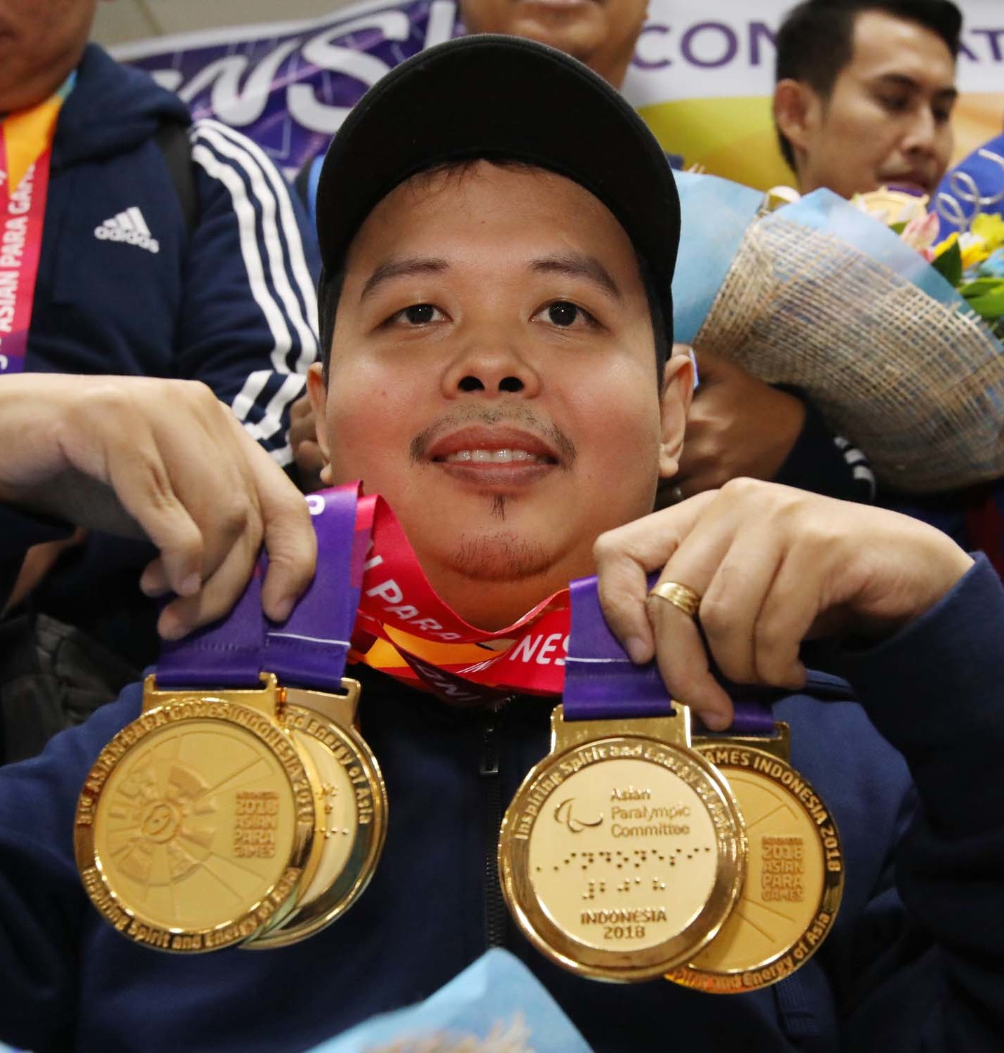 Sander Severino proudly shows his four gold medals from the 3rd Asian Para Games in Jakarta, Indonesia upon his arrival at the Ninoy Aquino International Airport (NAIA) Terminal 3 in Pasay City on Sunday (Oct. 14, 2018)